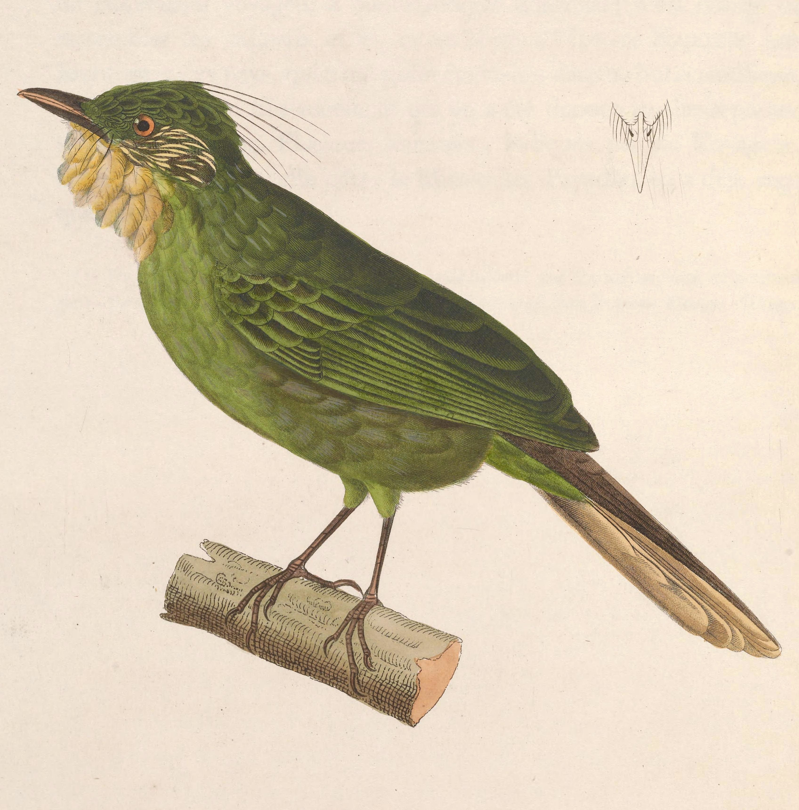 « Trichophorus barbatus » = Criniger barbatus (Western Bearded Greenbul) - male